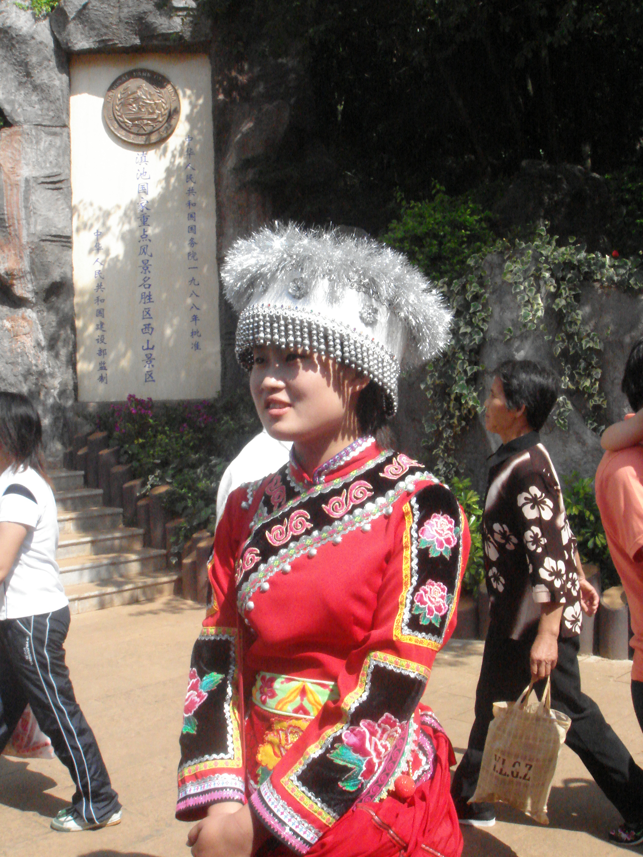 A Sani tour guide, a subgroup of the Yi minority, at the Stone Forest (Shilin) in Yunnan, China.